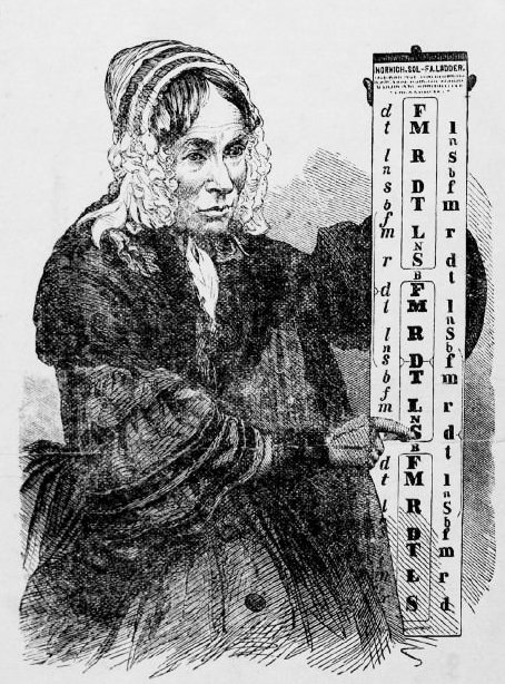 English music educator Sarah Ann Glover (1785-1867), inventor of the Norwich sol-fa system. Wood engraving.